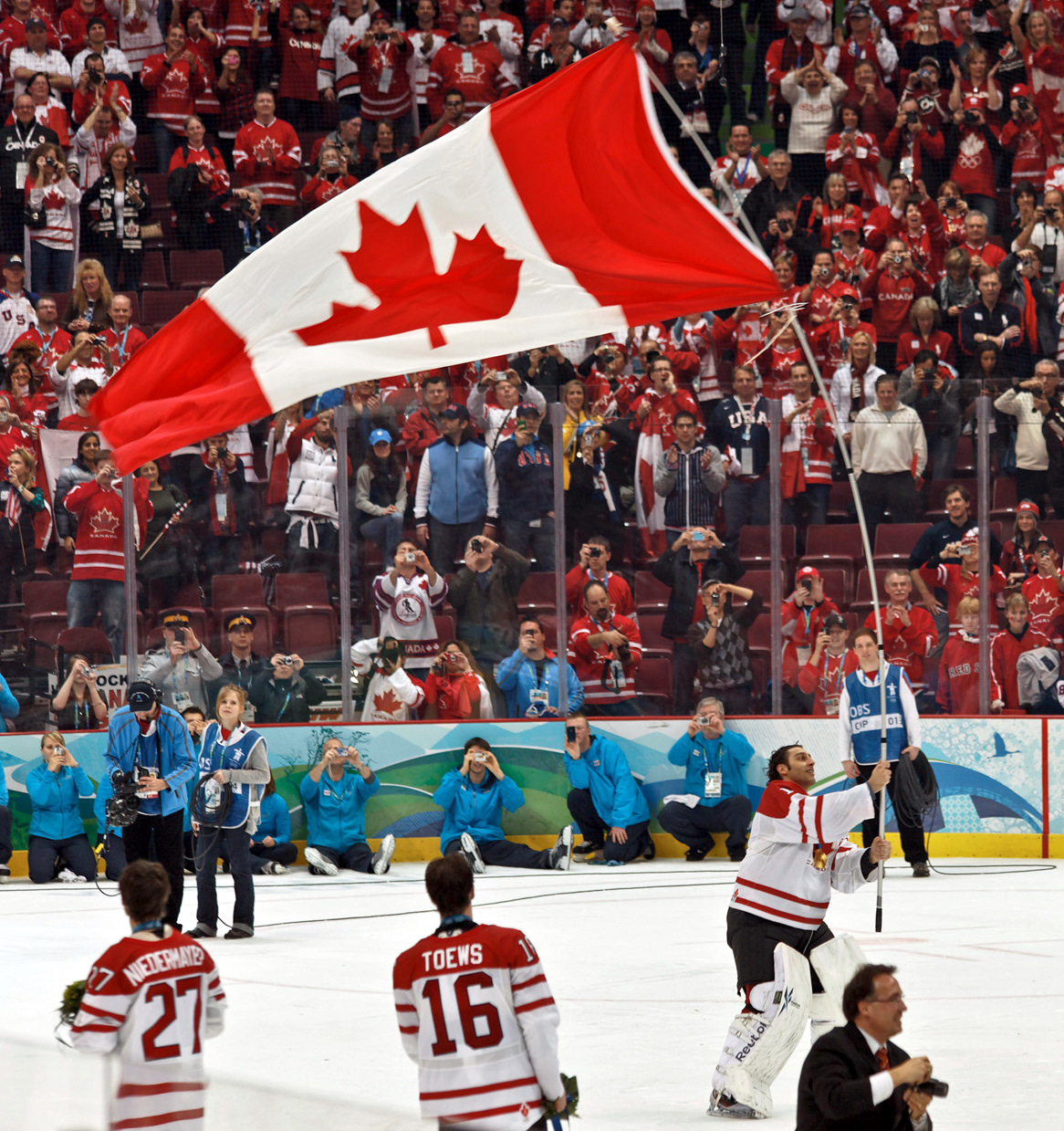 Goaltender Roberto Luongo carries the Canadian flag after Canada's gold medal win in the 2010 Winter Olympics in Vancouver.